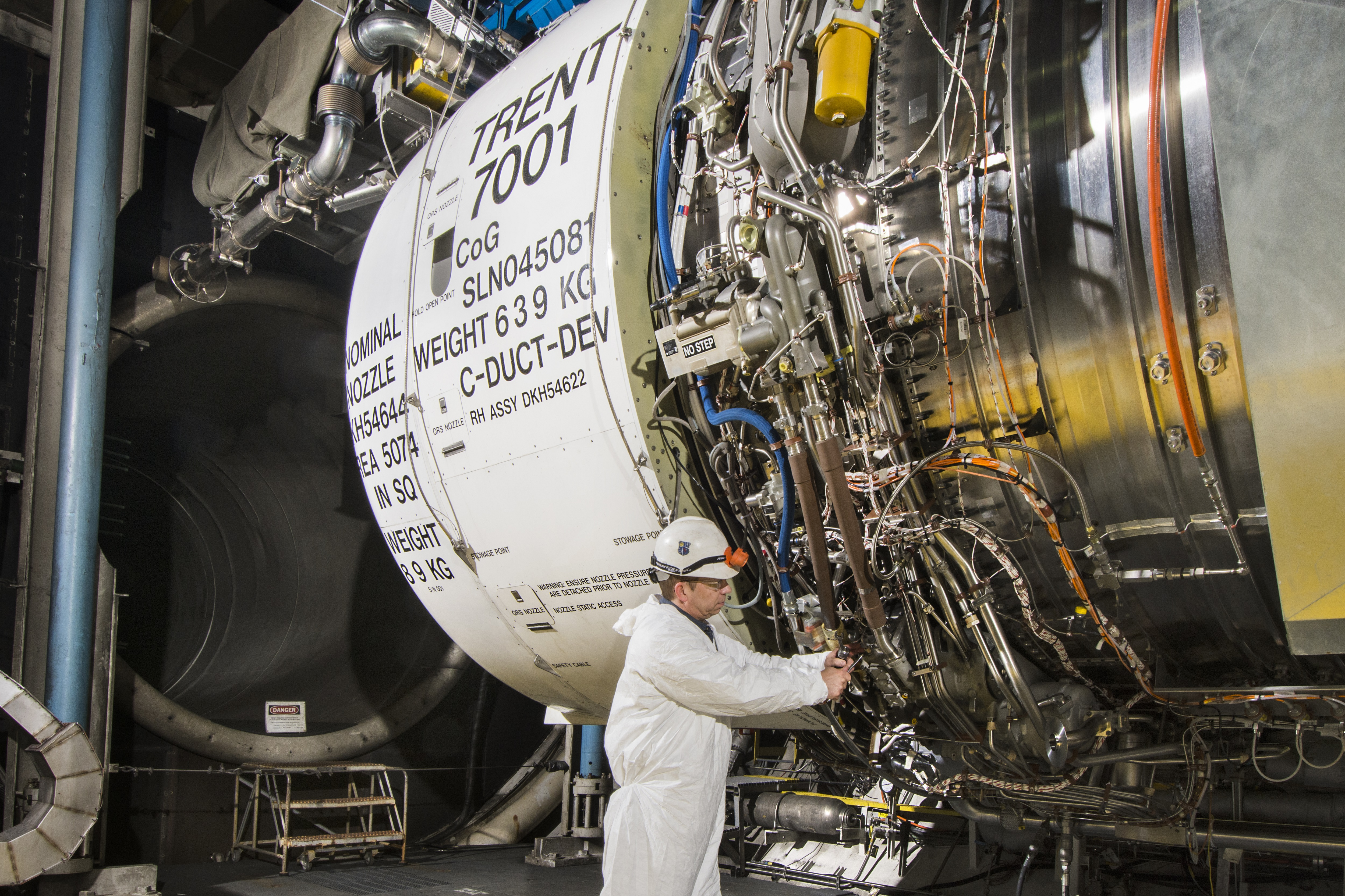 Engine for the new Airbus A33neo tested at Arnold Air Force Base Engineering Development Complex : Dan Haddon, lead outside machinist, helps prep the Rolls-Royce Trent 7000 engine for testing in the C-2 engine test cell.